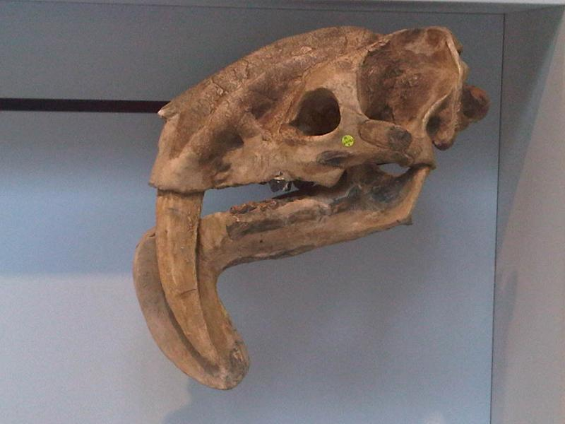 Thylacosmilus skull at the Natural History Museum in London, England.